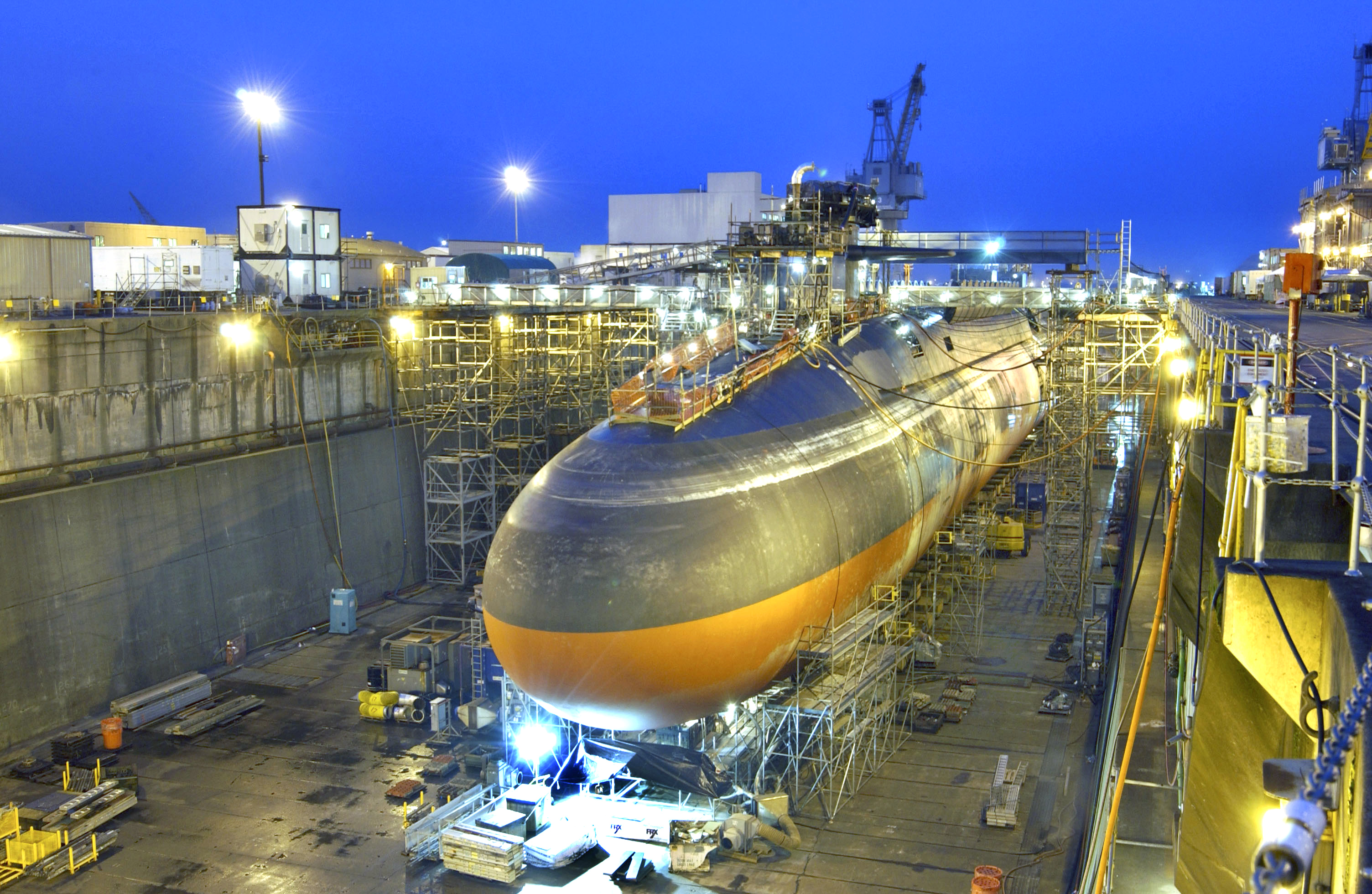 Bremerton, Wash. (Mar. 15, 2004) - Night falls at Puget Sound Naval Shipyard and Intermediate Maintenance Facility, Bremerton, Wash., as work continues on the strategic missile submarine USS Ohio (SSGN 726). Ohio is one of four Trident Submarines undergoing conversion to a new class of guided missile submarines. The SSGN conversion program takes Ohio-class ballistic missile submarines through an extensive overhaul that will improve their capability to support and launch up to 154 Tomahawk missiles. They will also provide the capability to carry other payloads, such as unmanned underwater vehicles (UUVs), unmanned aerial vehicles (UAVs) and Special Forces equipment. This new platform will also have the capability to carry and support more than 66 Navy SEALs (Sea, Air and Land) and insert them clandestinely into potential conflict areas. U.S. Navy photo by Wendy Hallmark (RELEASED)